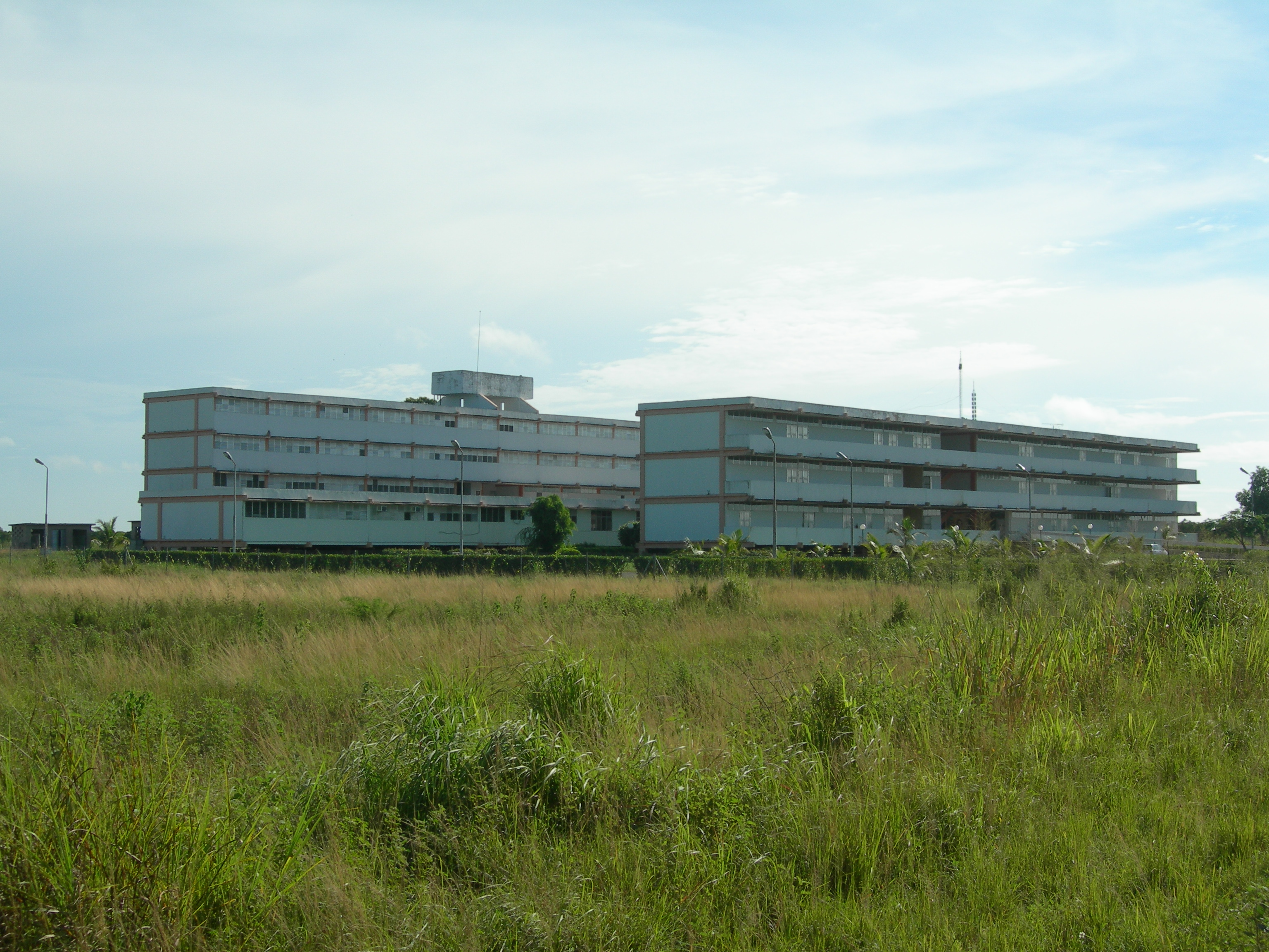 Outside view of the Guest's House Jesús Falcón of Agramonte (Cuba).